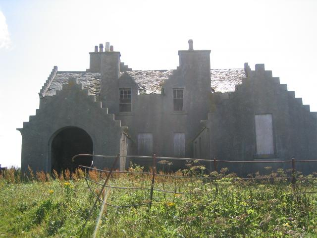 Erskine Beveridge's house on Bhalaigh. The abandoned house of the historian Erskine Beveridge.